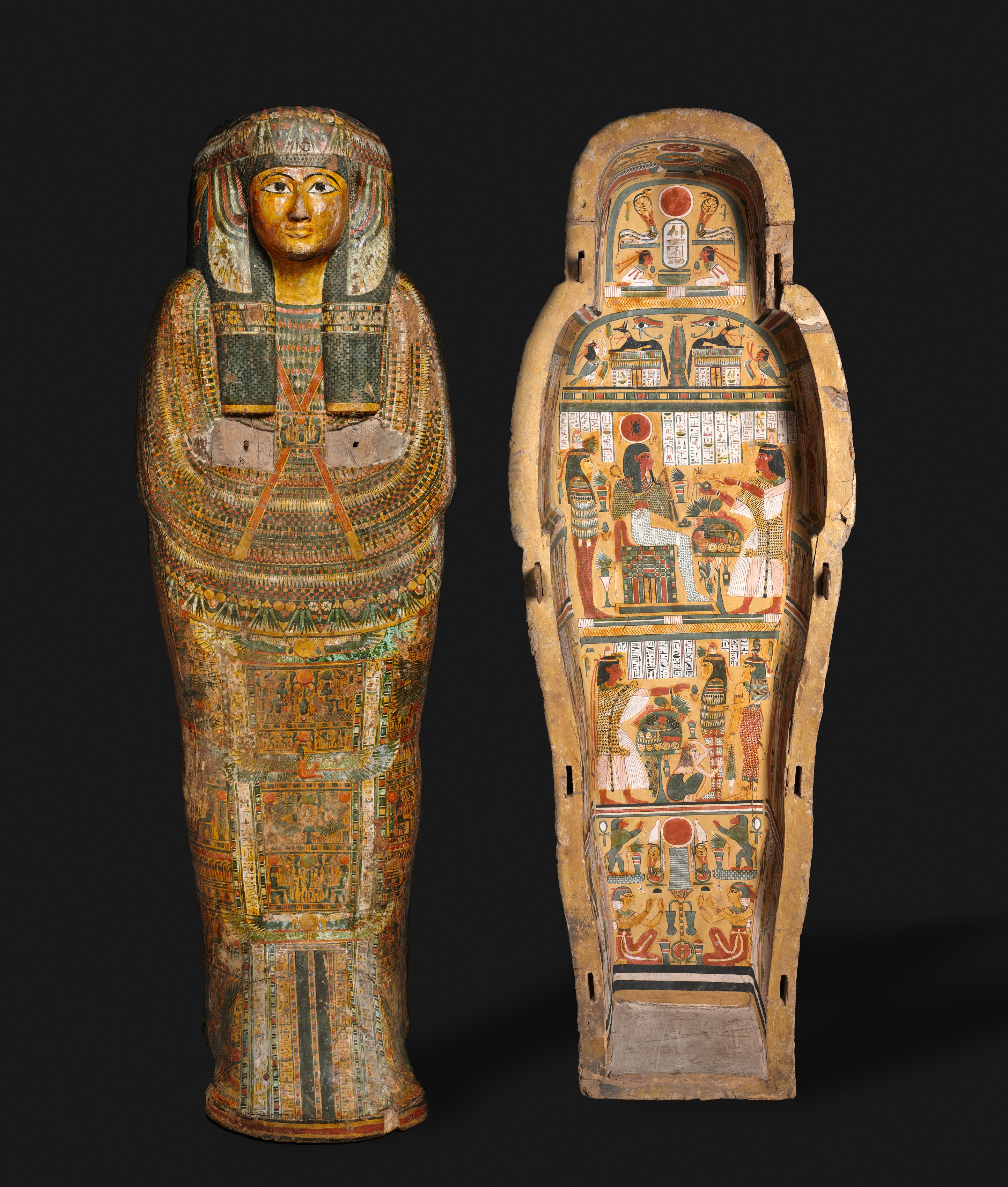 A complete set of coffins during the late New Kingdom and Third Intermediate Period consisted of an outer and inner coffin and a mummy board (essentially a lid without a case, placed directly over the wrapped mummy). Judging by its size, this must have been Nesykhonsu's outer coffin. The type is essentially the same as the coffin of Bakenmut, which was also an outer coffin. The two coffins are said to have been found together and to have belonged to a man and wife. This is quite possible, although the inscriptions do not bear it out. Bakenmut is not mentioned on Nesykhonsu's coffin, nor is she mentioned on his. There was by this time a tremendous repertoire of scenes appropriate for coffin decoration. Whereas Bakenmut's coffin features images of deified dead pharaohs, Nesykhonsu's is decorated in a more personal way with scenes from her own funeral. The main scene in the interior (near the top) shows a priest clad in a panther skin with the mummy of Nesykhonsu behind. The god appears in mummy form and wears a sun disk on his head. The scarab beetle inside the sun disk identifies him as Khepri, the morning sun, and the hieroglyphs to the right identify him as Atum, the evening sun. Taken together, image and text represent the sun god in both his rising and setting, youthful and aged aspects.